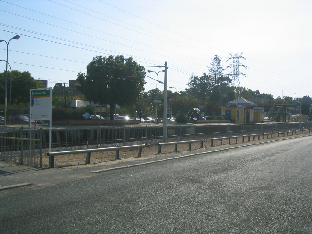 Former Transperth railway station at Victoria Park.